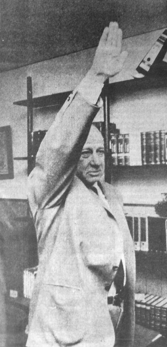 Alberto Eduardo Ottalagano, rector of the University of Buenos Aires, making the fascist salute (circa 1970).